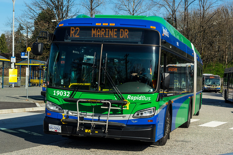 Coast Mountain Bus Company - #19032 on route R2 Marine Drive at Phibbs Exchange